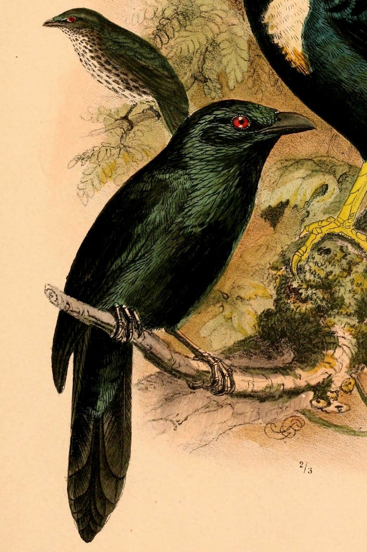 « Calornis sulaensis » = Aplonis mysolensis sulaensis (Subspecies of Moluccan Starling)